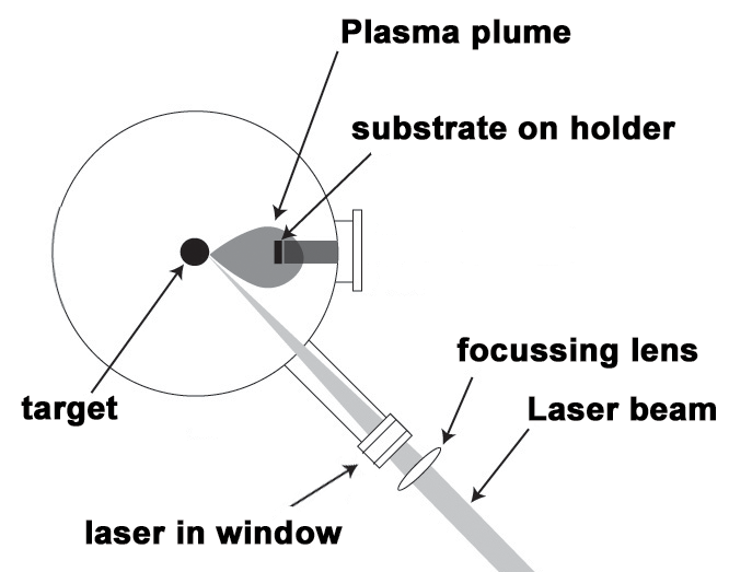 Author: Spanish_Inquisition 2006